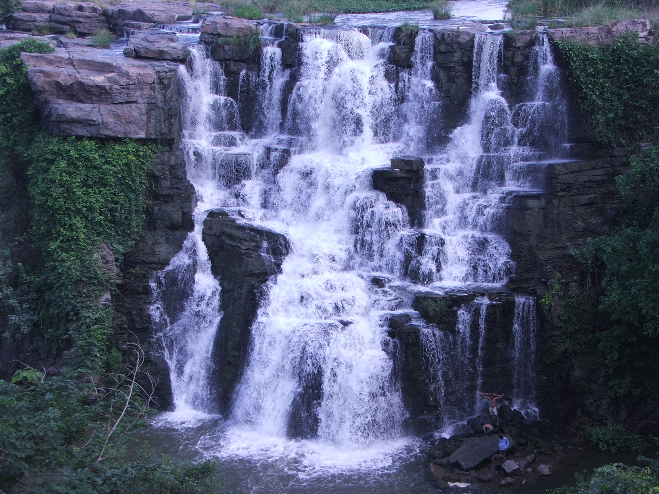 Ethipothala Falls is a 21 m high river cascade, situated on the Chandravanka river, a tributary of River Krishna. It is situated about 11 kilometres from Nagarjuna Sagar Dam.